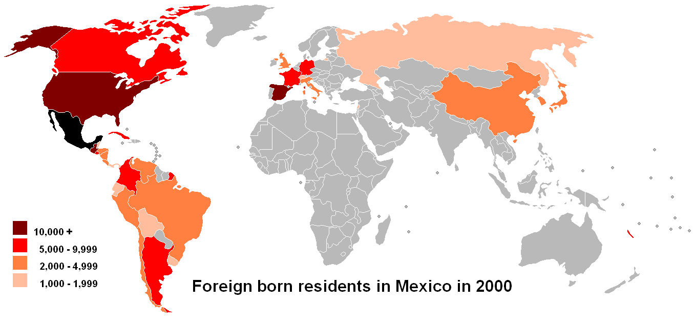 Foreign born persons (naturalised or otherwise) counted in the 2000 Mexico Census